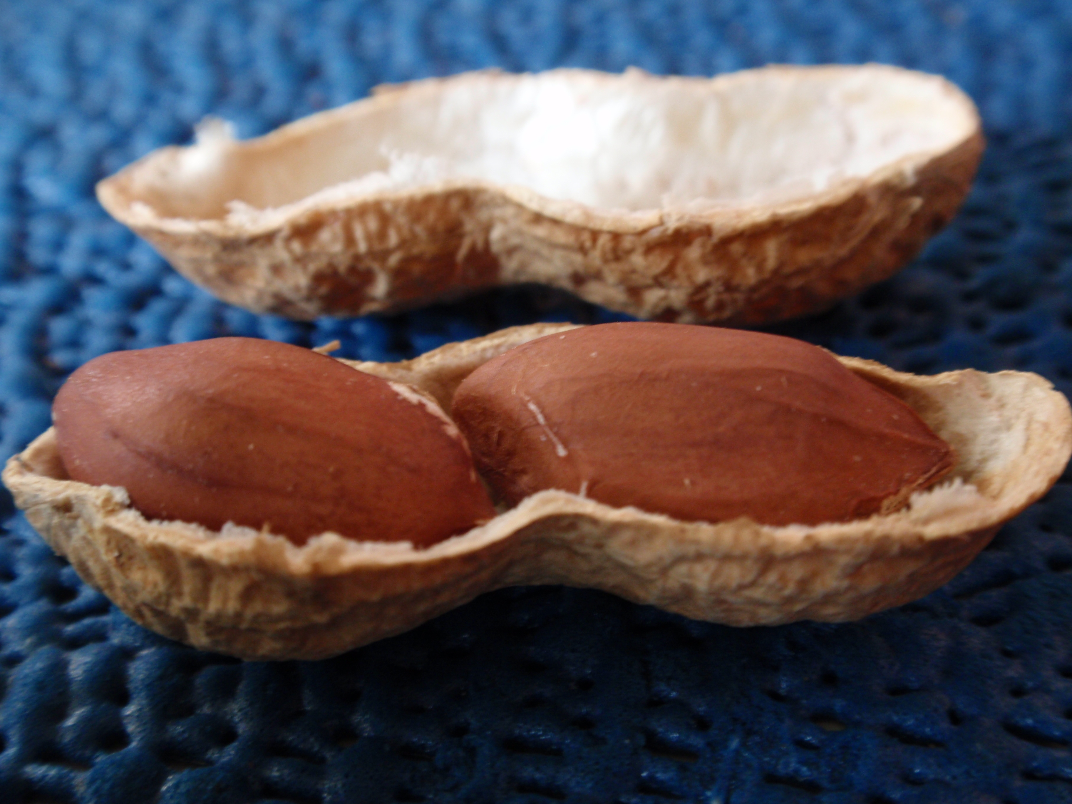 Peanut